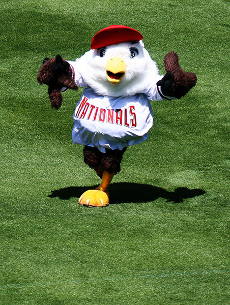 Screech